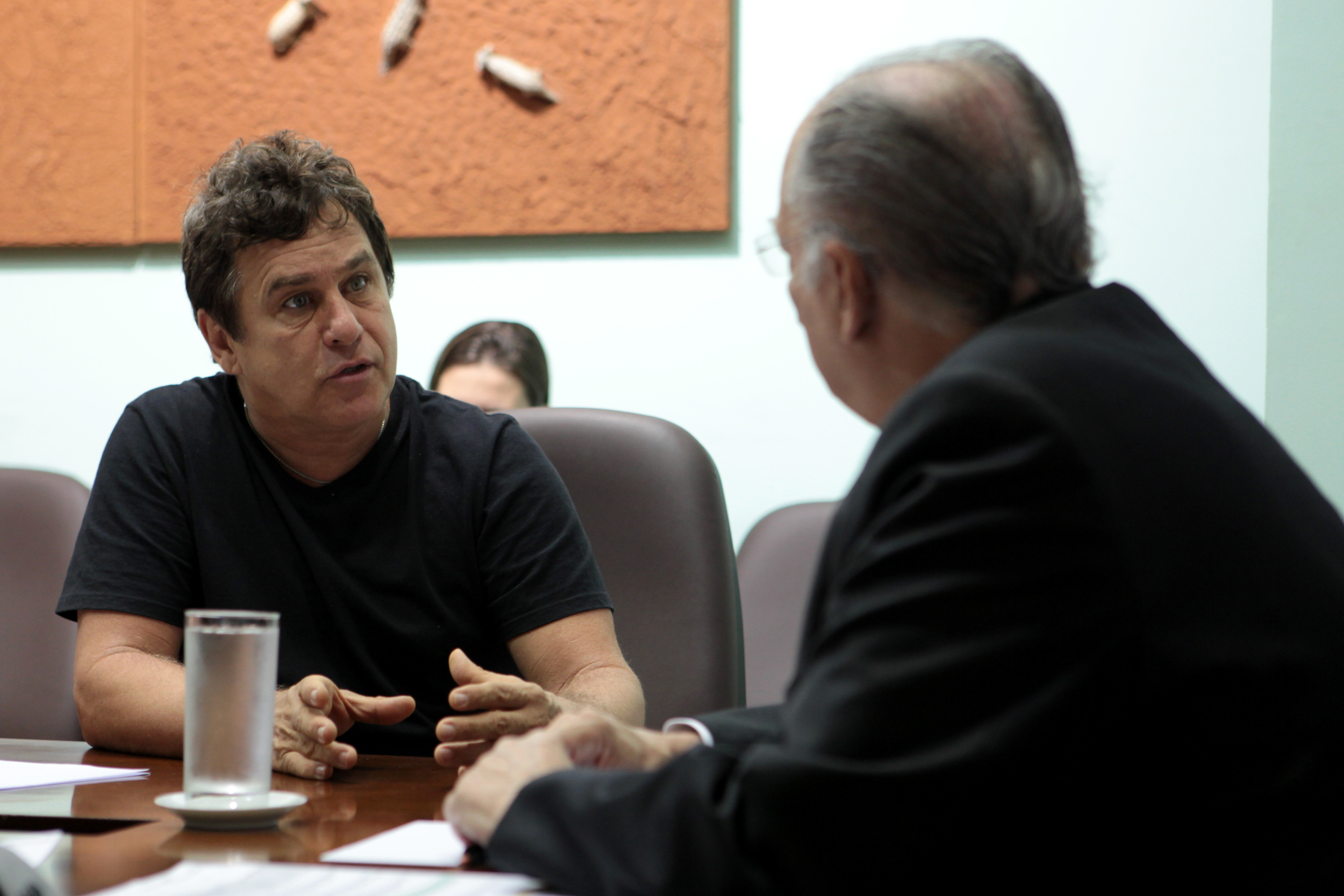 Fotos: Edson Leal